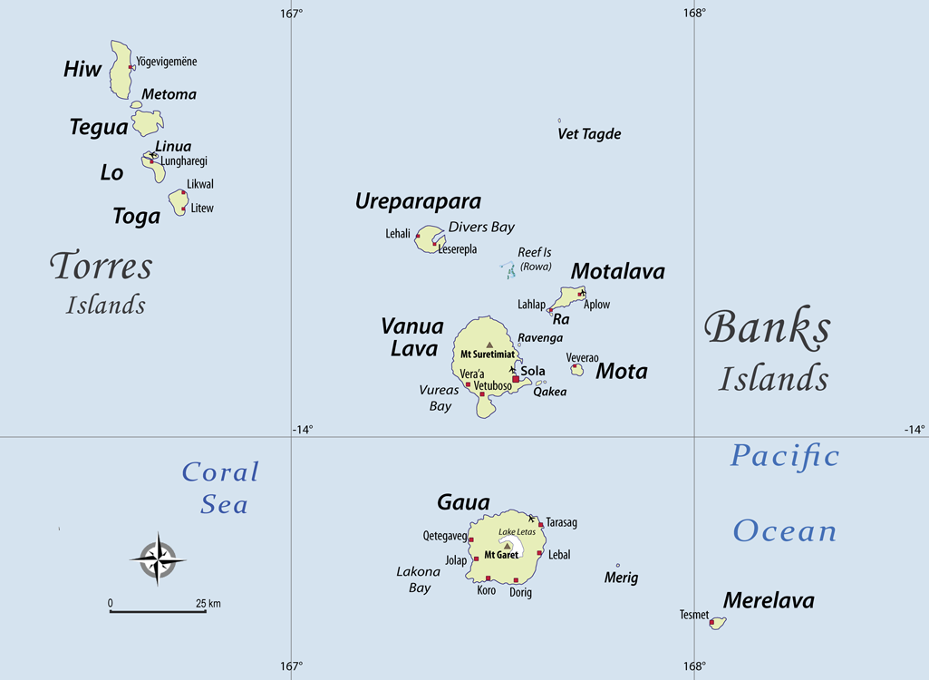 I have drawn this map of the Torres & Banks Islands (Vanuatu) based on several other maps showing sufficient precision. I paid special attention to the transcription of place names, based on personal fieldwork in the Banks Islands, and professional knowledge of the various local languages.